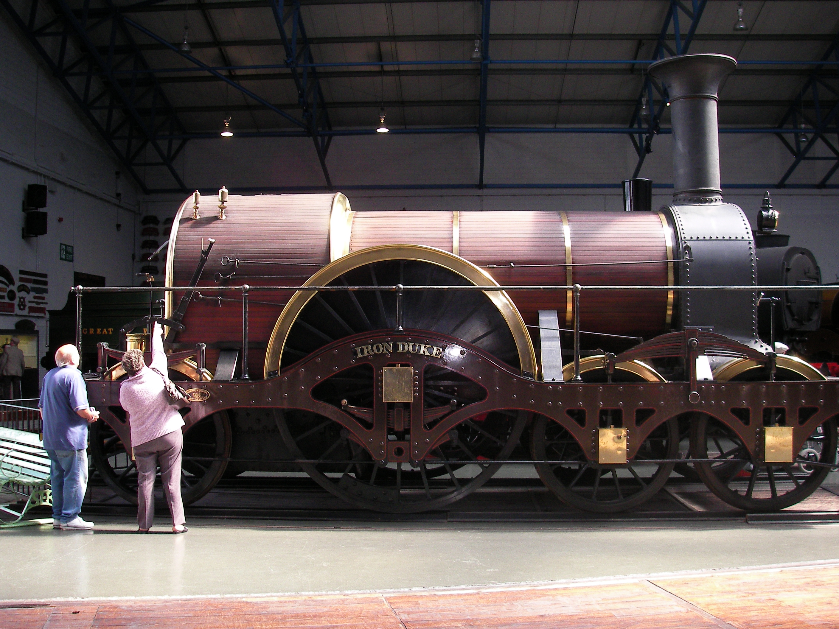 Iron Duke replica at the NRM